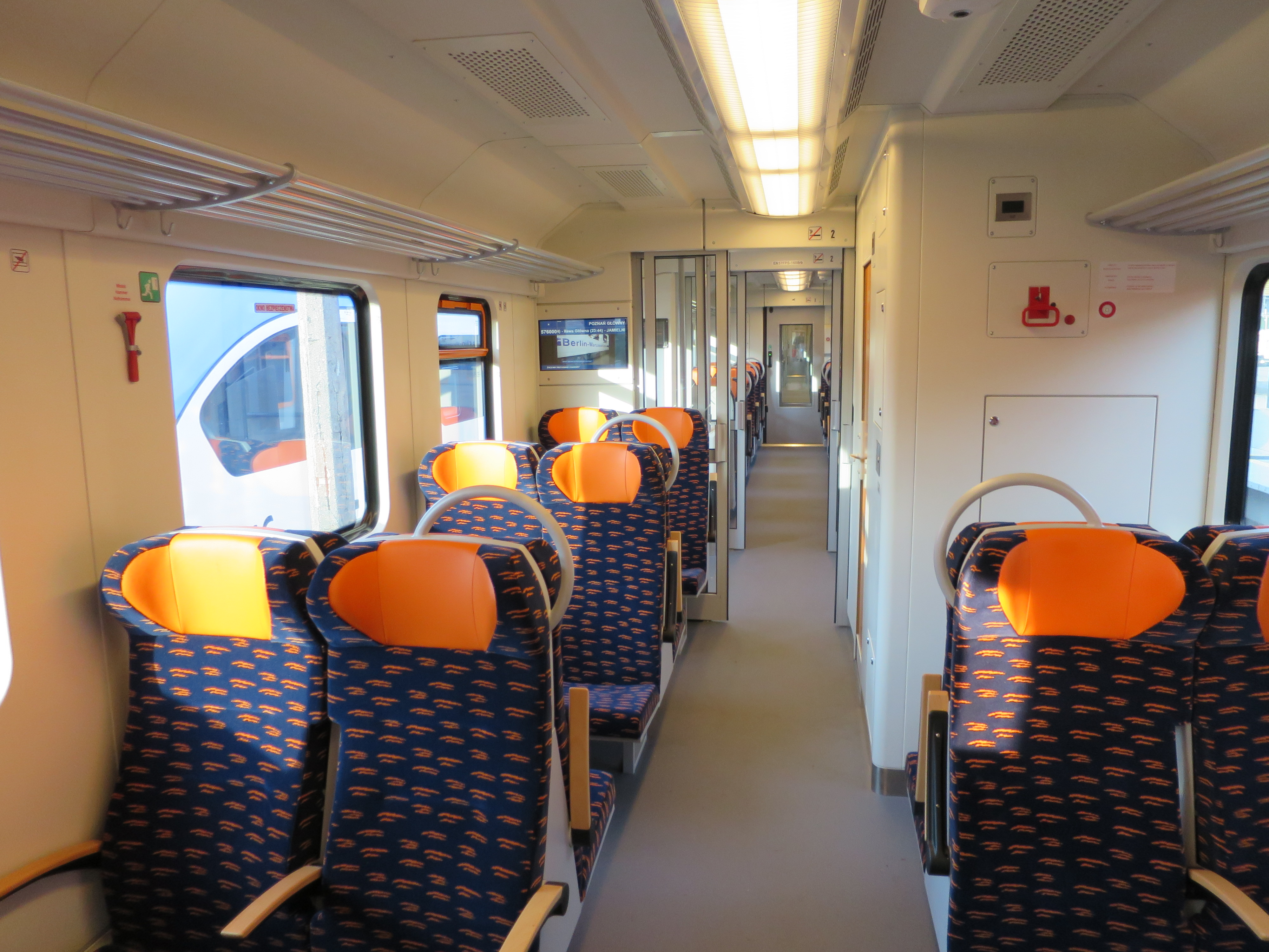 The making of this document was supported by Wikimedia Polska Association, within Wikigrant no. WG 2017-44. EN57FPS